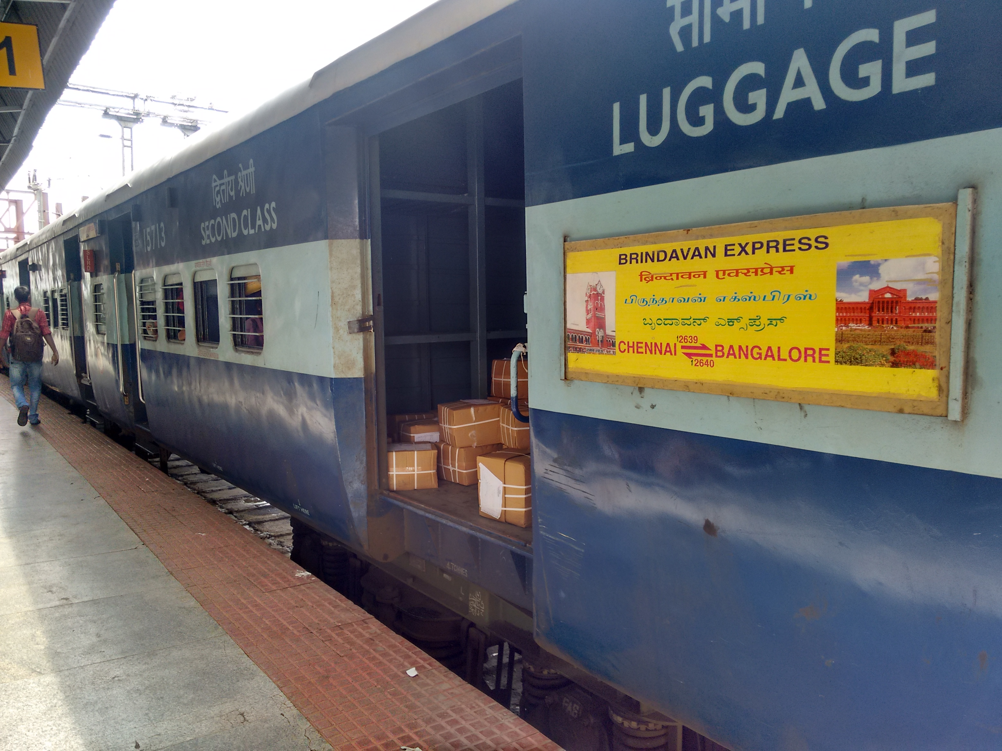 Display board of Brindavan Express